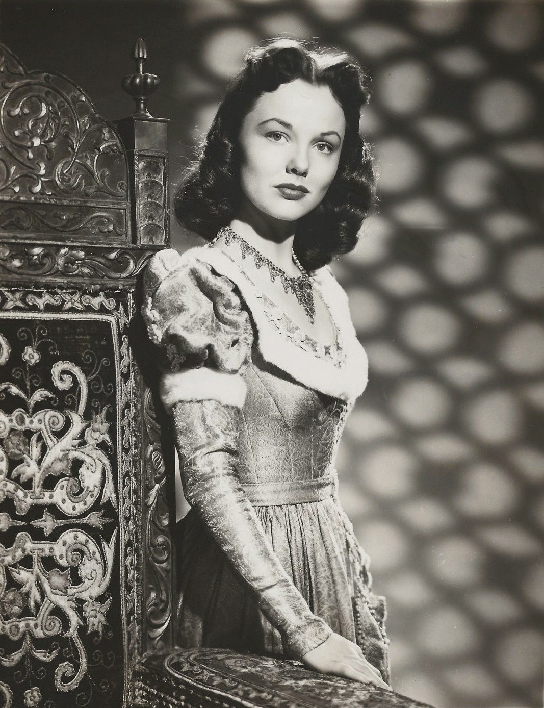 Wanda Hendrix in Prince of Foxes - publicity still (cropped)